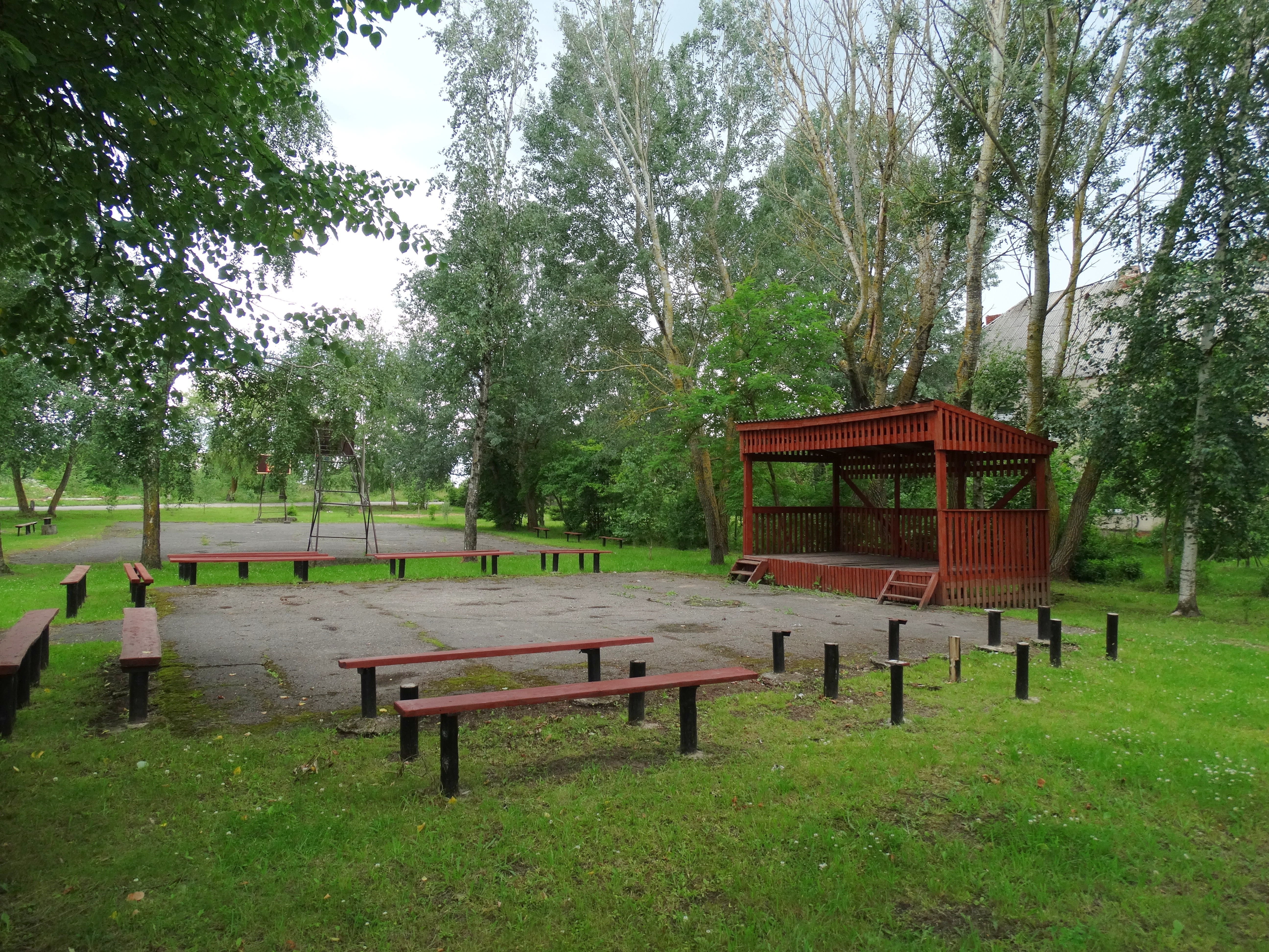 Kraštai, Pasvalys District, Lithuania